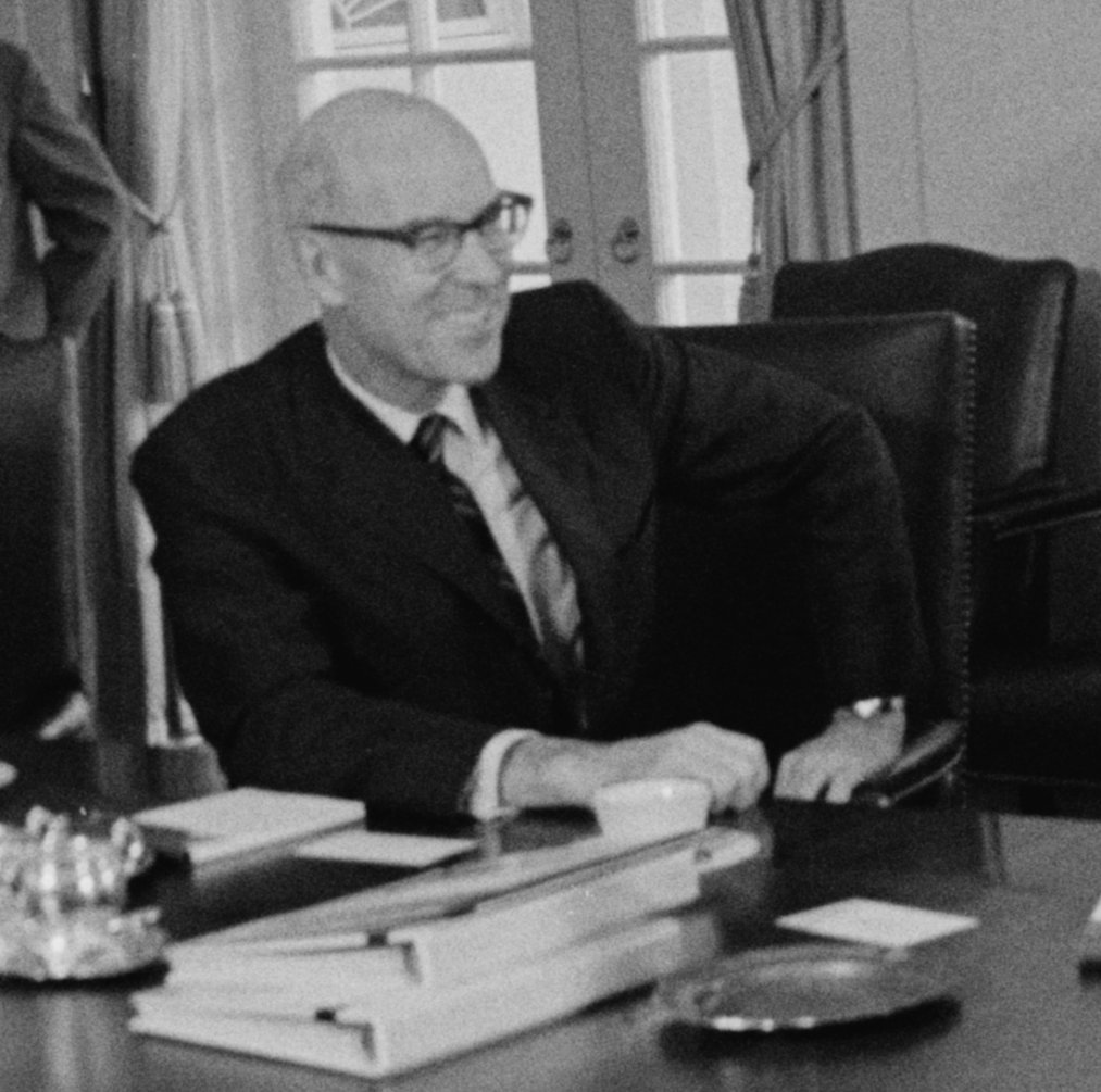 Robert S. Ingersoll, Deputy Secretary of State under Gerald Ford. Cropped from Image:Ford National Security Council.jpg